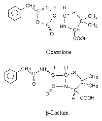 Различия в предполагаемых структурах пенициллина. Структуры, содержащие оксазолоновый и β-лактамный циклы